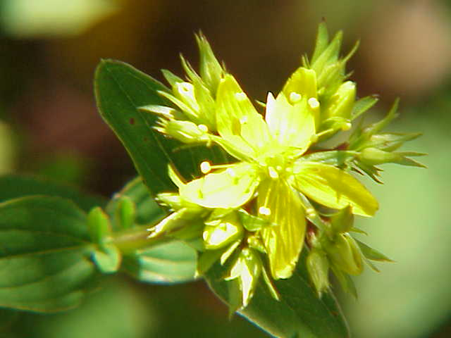 Species: Hypericum elegans Family: Guttiferae Image No. 1